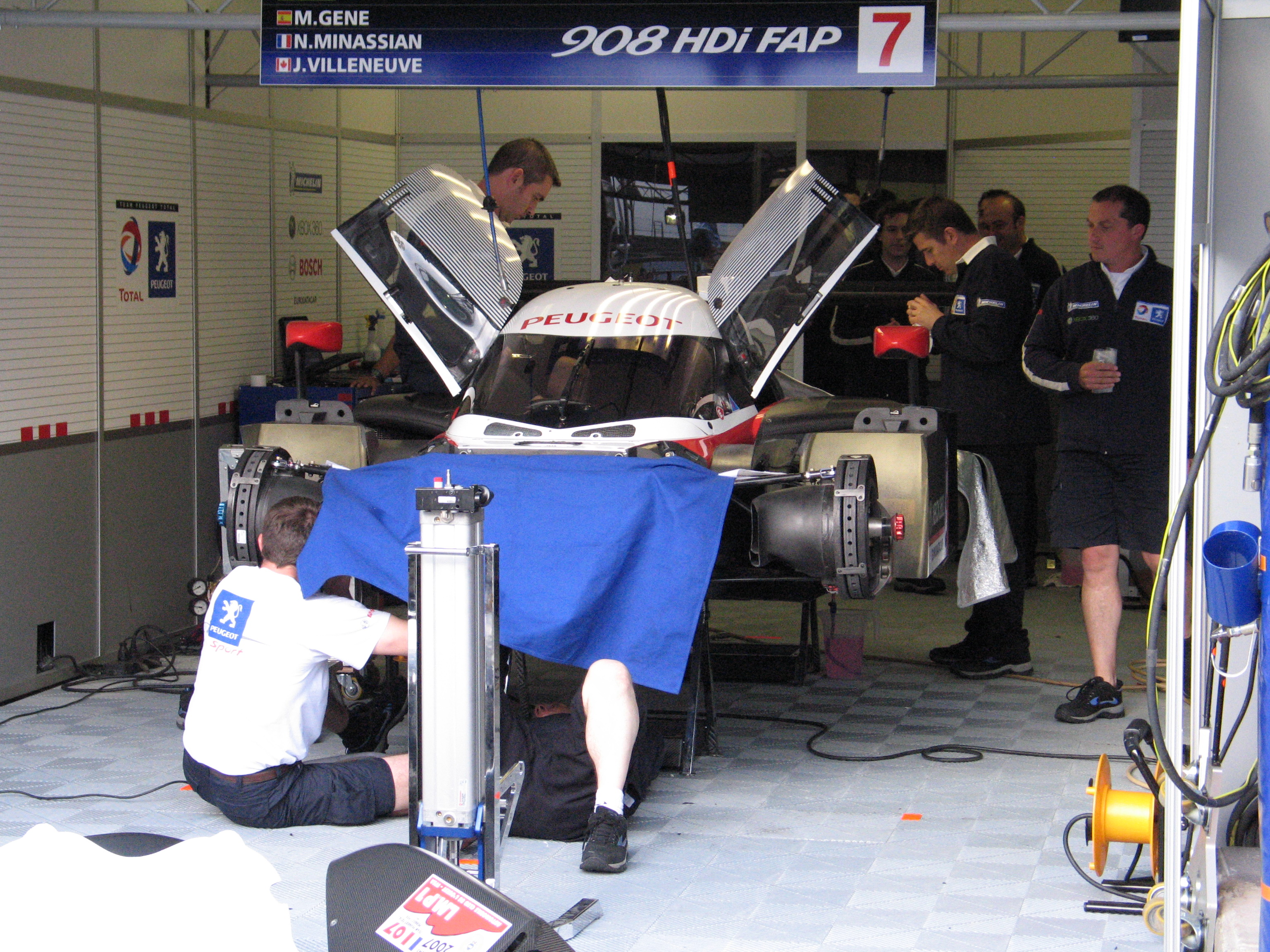 A Peugeot 908 at the 2007 24 Hours of Le Mans